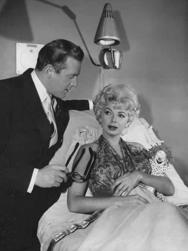 Photo from the television series The Twilight Zone. The episode is "Twenty-two"; pictured are Barbara Nichols and Fredd Wayne.